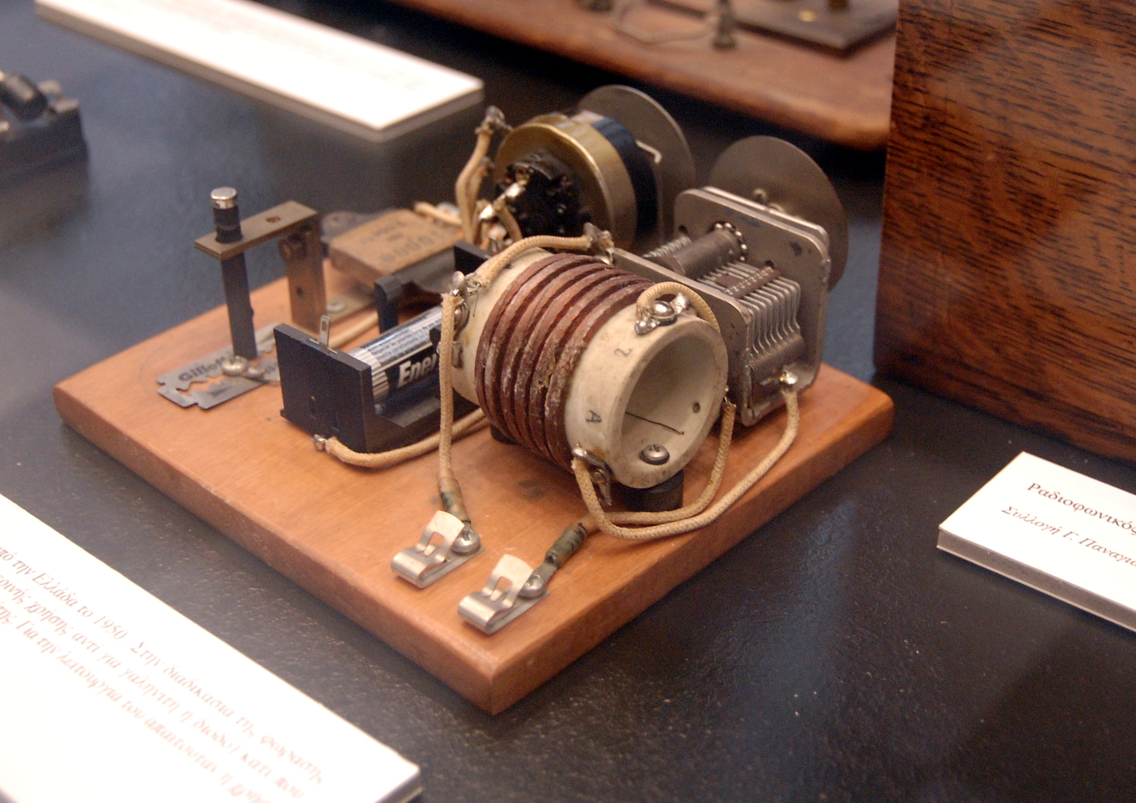 A homemade "crystal" radio receiver, made in Greece, 1935. This example uses a razor blade and battery carbon to make a crude point-contact diode, instead of the galena cat's whisker detector used in most crystal radios. Receivers using this technique that were constructed by soldiers during World War 2 were also known as "foxhole radios". The battery included in this radio does not provide power to amplify the signal as in modern radios, but is used to apply a small bias voltage to the razor blade detector, to make it more sensitive.